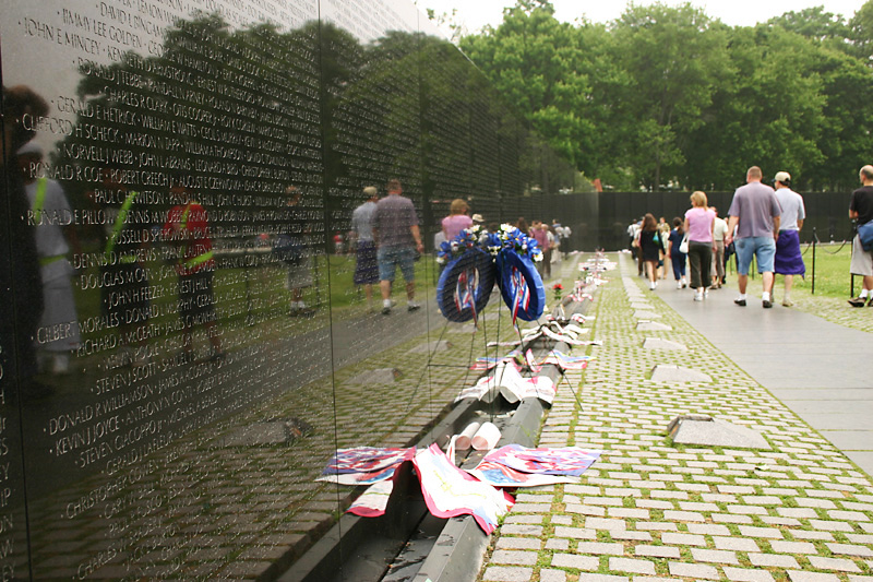 Vietnam Veterans Memorial Kelvin Kay user:Kkmd